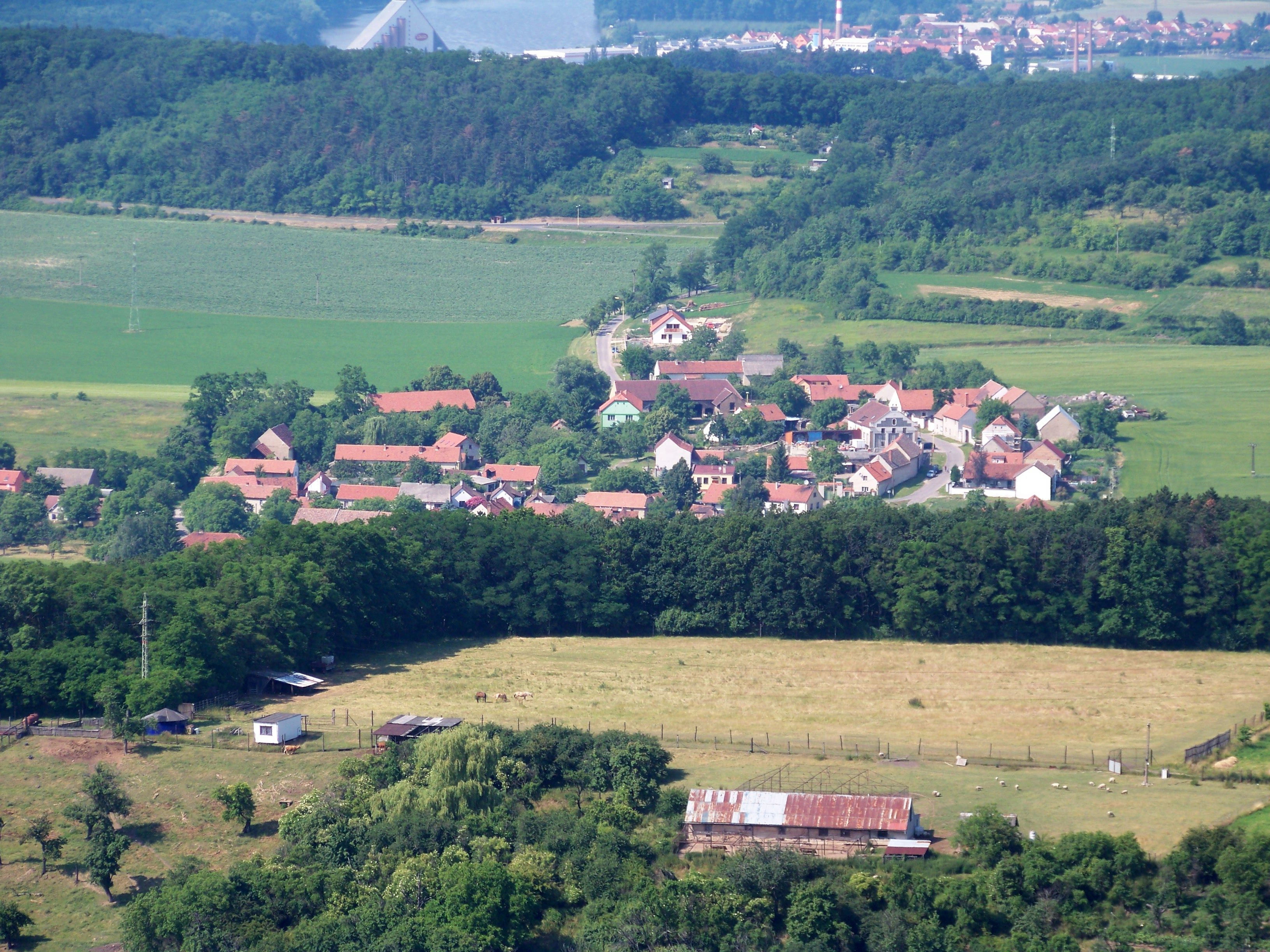 Krabčice-Vesce, Litoměřice District,Ústí nad Labem Region, the Czech Republic. A view from Říp Mountain.